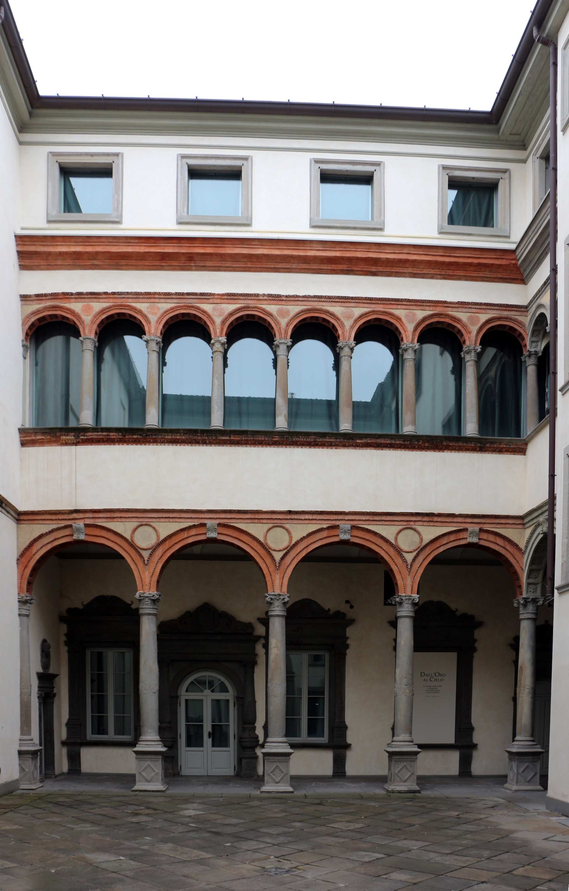 Museo Adriano Bernareggi